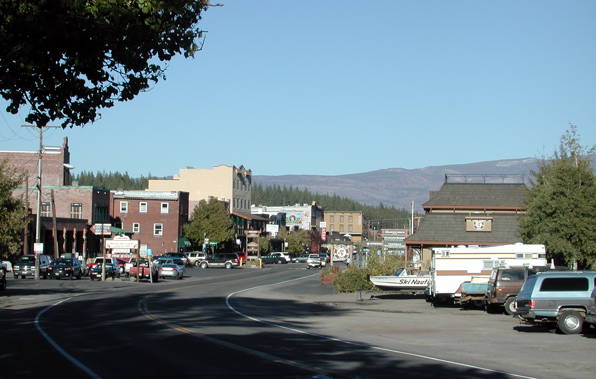 Donner Pass Road in downtown Truckee, Northern California.